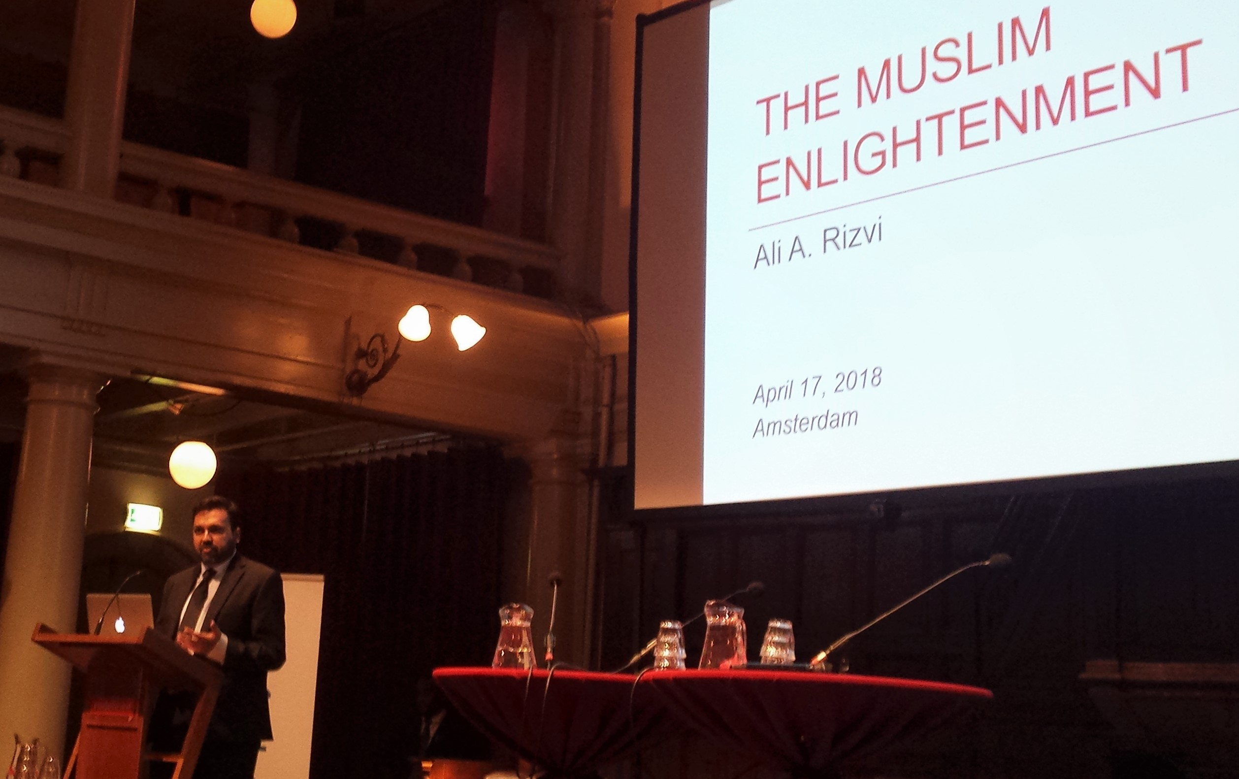 Ali A. Rizvi lecturing about the Muslim Enlightenment in De Rode Hoed in Amsterdam on 17 April 2018.